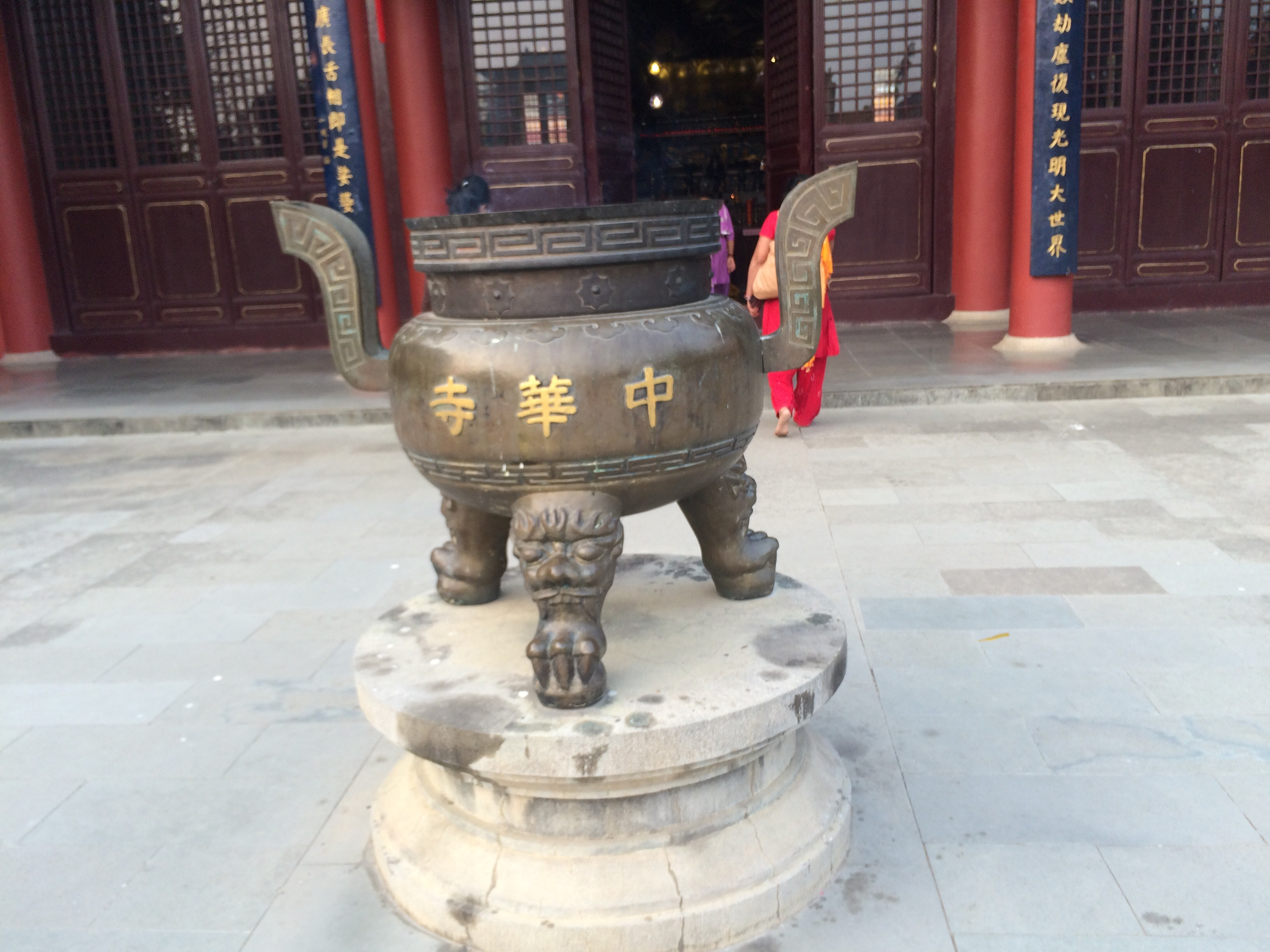 Holy symbol in Chinese stupa, lumbini Nepal